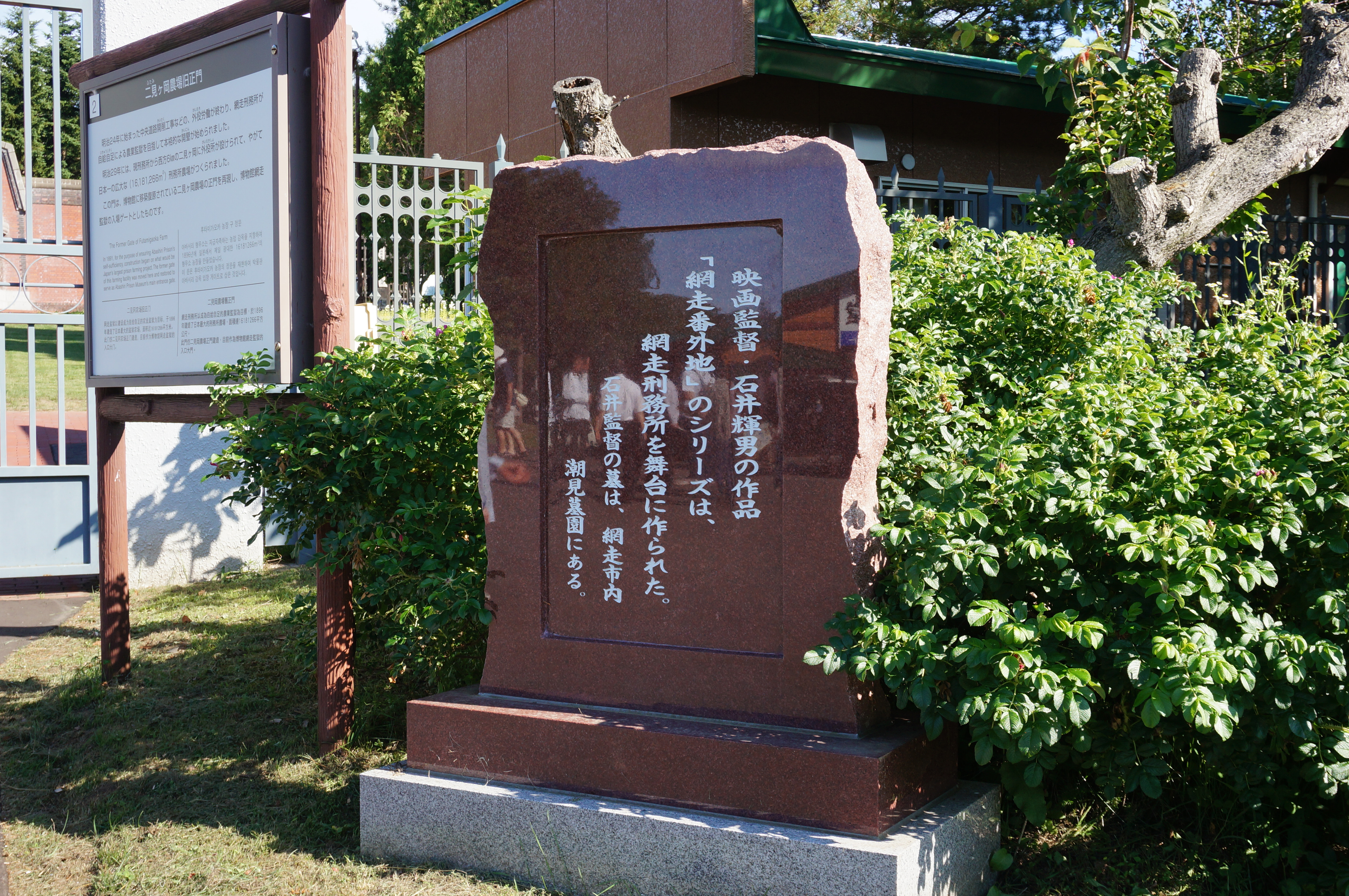 Abashiri Prison Museum in Abashiri, Hokkaido, Japan.